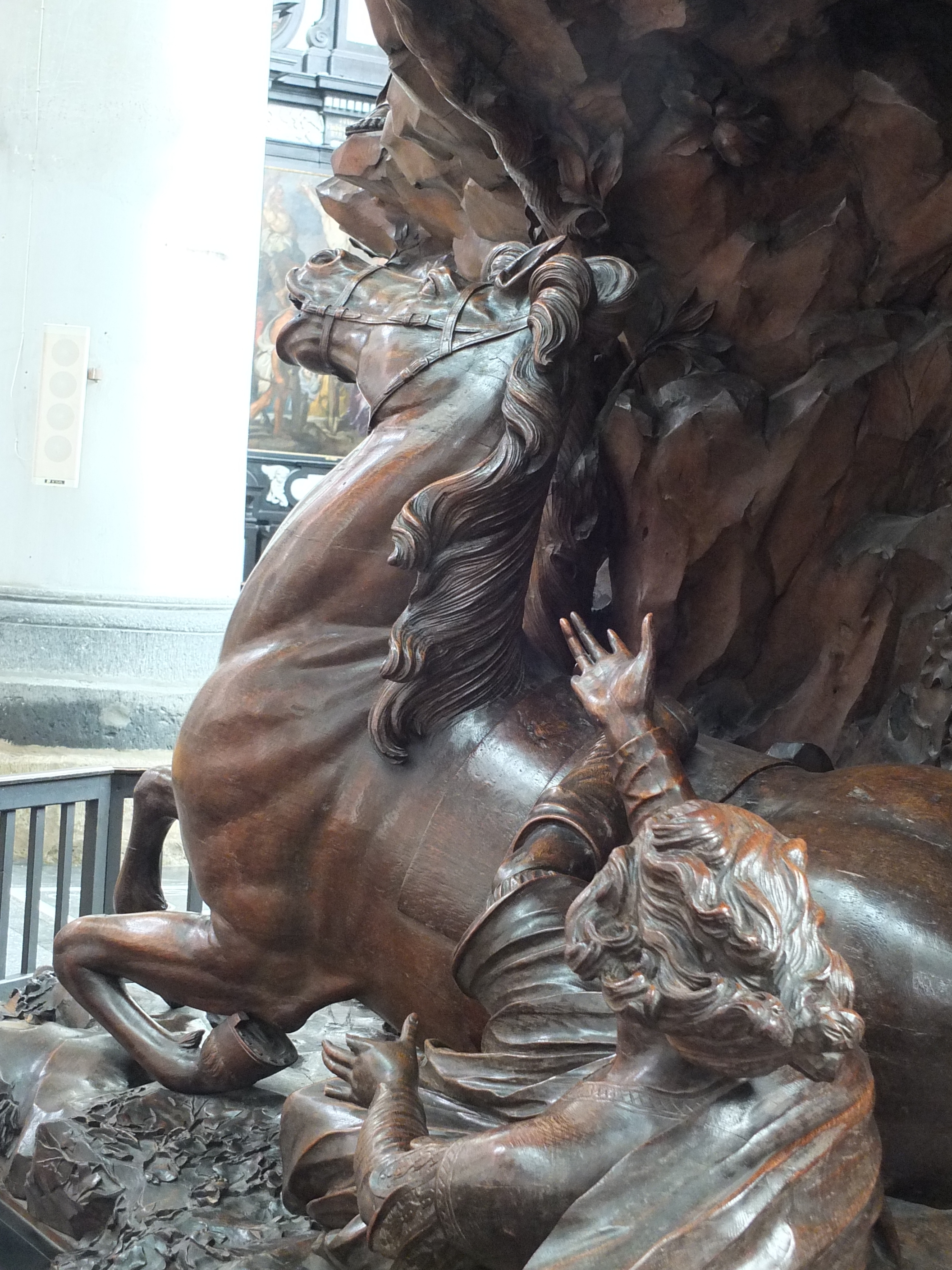 Detail of the monumental pulpit of St-Rumbold's Cathedral in Mechelen (Belgium). The pulpit was carved by the Antwerp artist Michiel Vervoort (1667-1737) in 1721-1723 for the cionvent church of the sisters of Norbertus of Leliëndaal (now a jesuit church in the main street Bruul). After the French Revolution the pulpit was installed in the cathedral and built around a column by Jan-Frans van Geel (1756-1830). At the lower end one sees Saint Norbert (1080-1134) falling of his horse and converting to christianity.